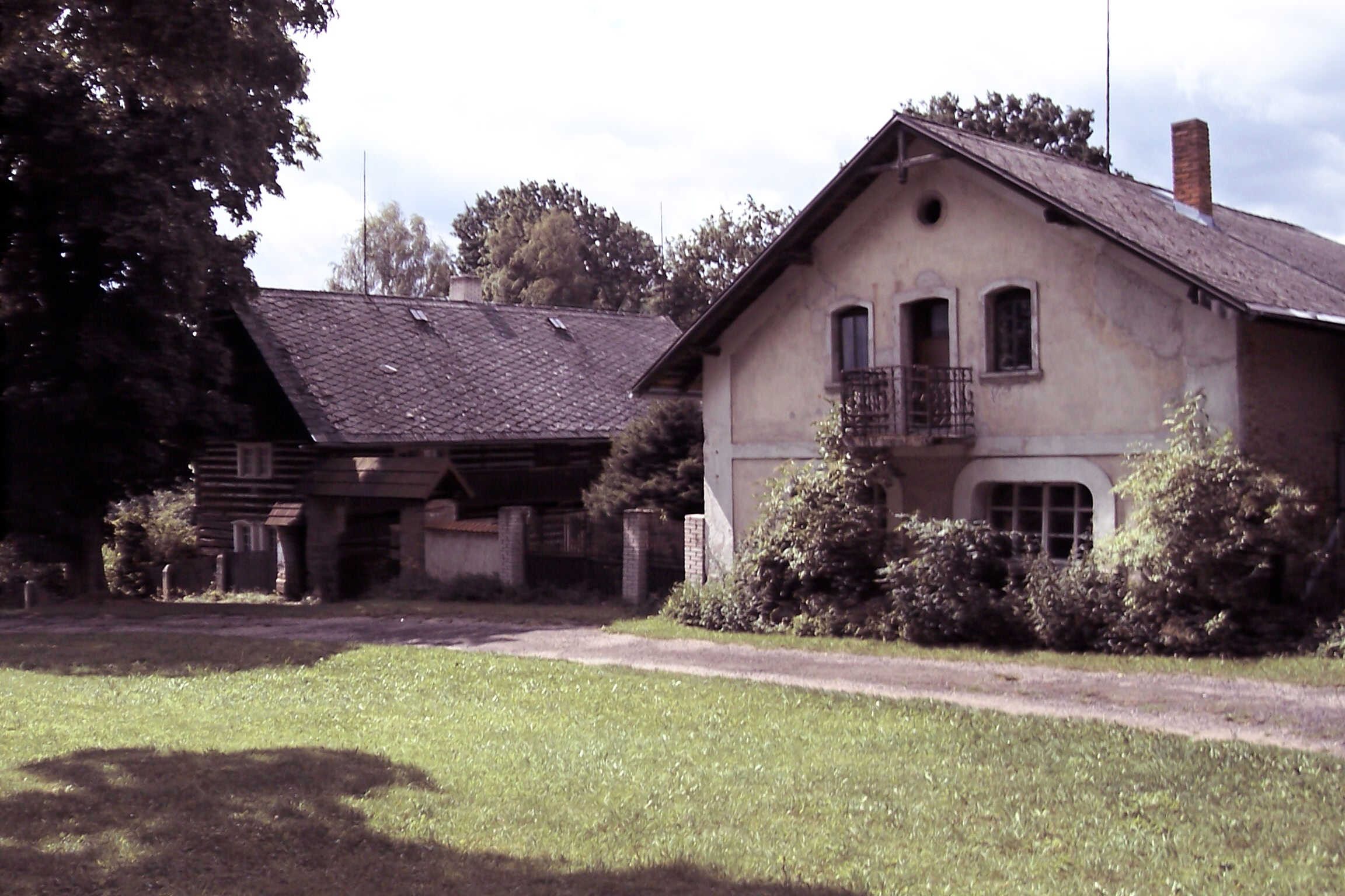 Libošovice, in Jičín District, part Vesec u Sobotky, Czech Republic. Common.